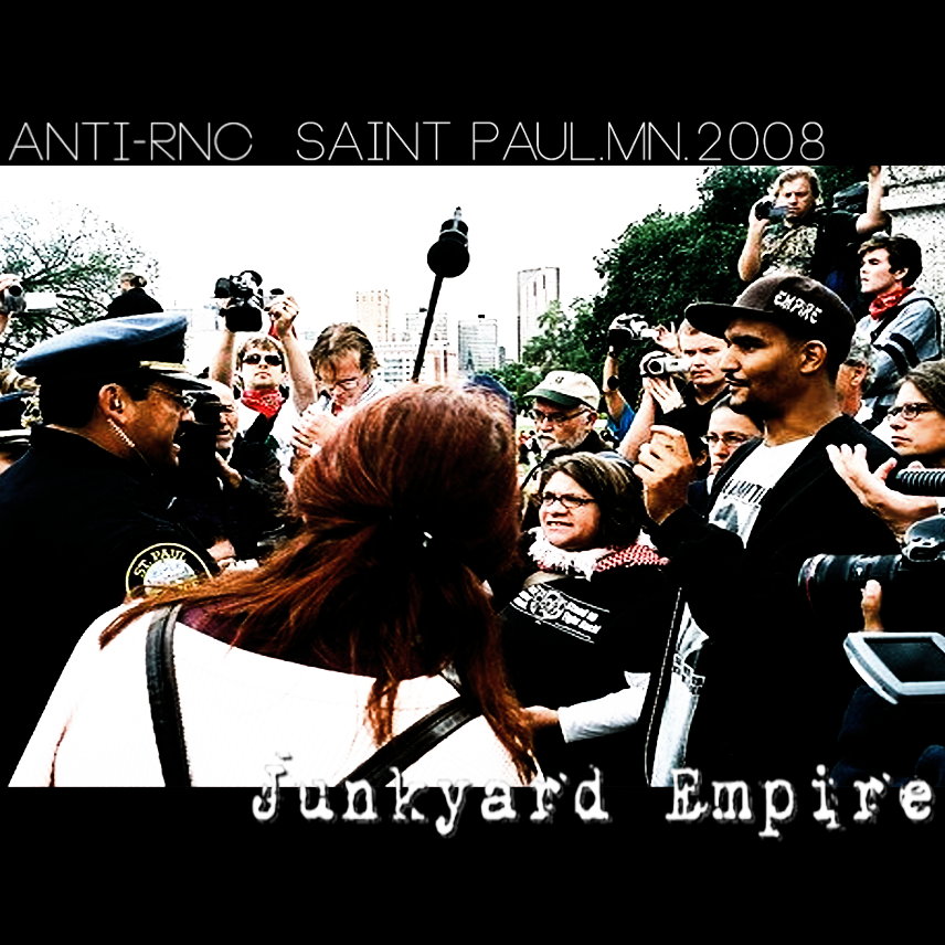 Junkyard Empire's Brihanu confronts Saint Paul Police Chief after a raided performance at the Republican National Convention of 2008.